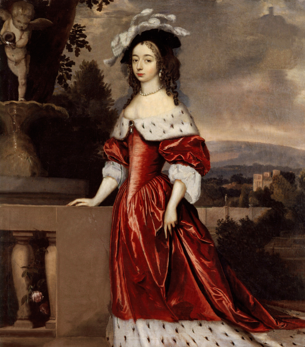 Potrait of Henriette Catherine of Nassau (1637-1708)